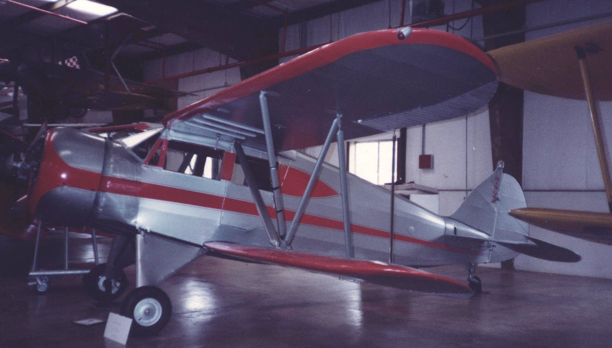 Waco UIC N13062 of 1932 at NASM restoration facility, Silver Hill, Maryland